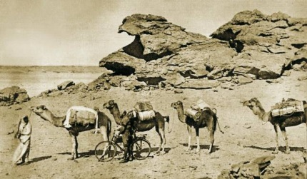 A dromader caravan in Africa. The photo probably taken by Kazimierz Nowak (1897-1937, the author is on the photo; taken probably by a self-timer) during his trip through Africa - a Polish traveller, correspondent and photographer. Probably the first man in the world who crossed Africa alone from the North to the South and from the South to the North (from 1931 to 1936; on foot, by bicycle and canoe).